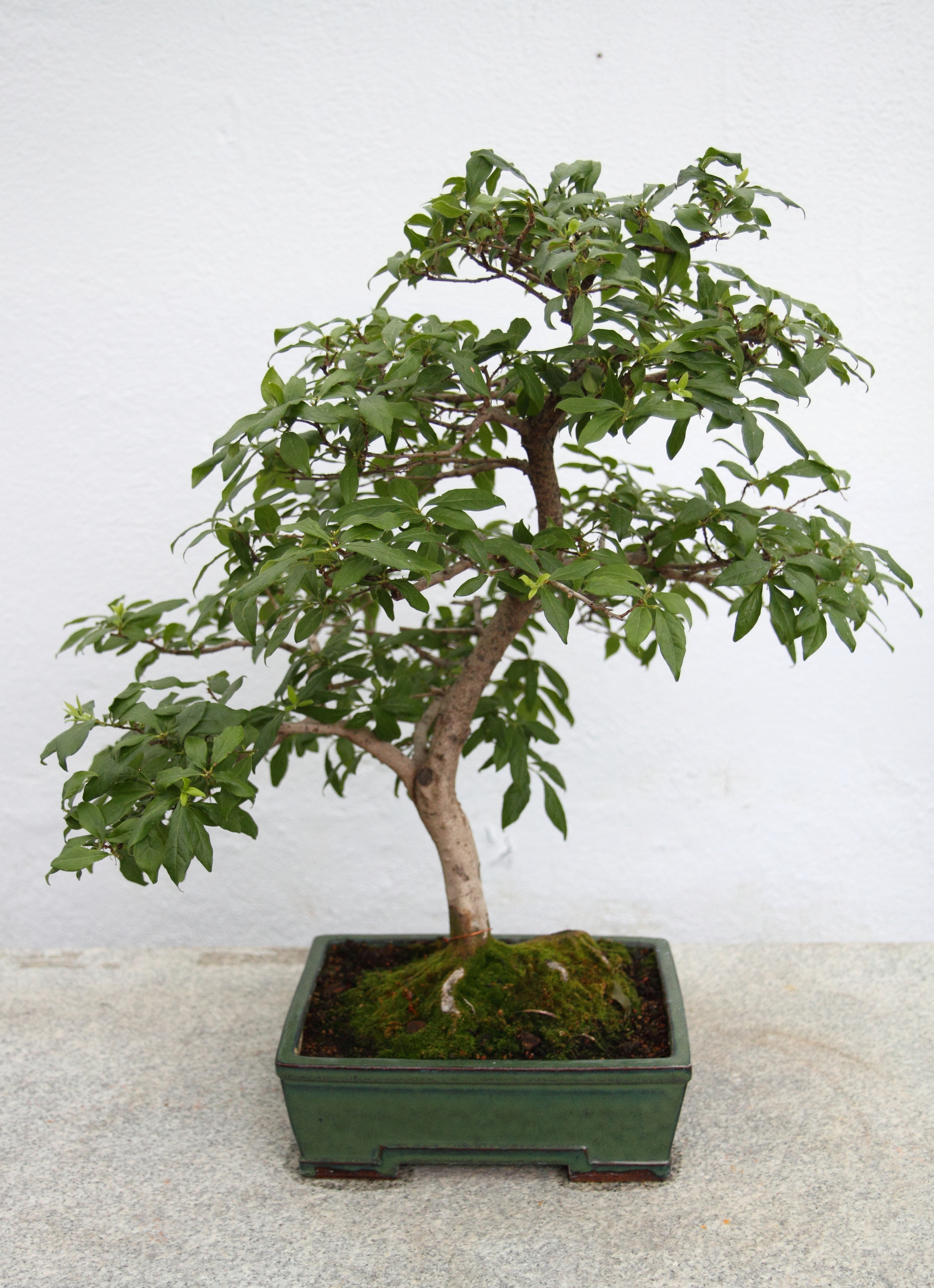 Diospyros rhombifolia Penjing, Montreal Botanical Garden, Montreal, Quebec